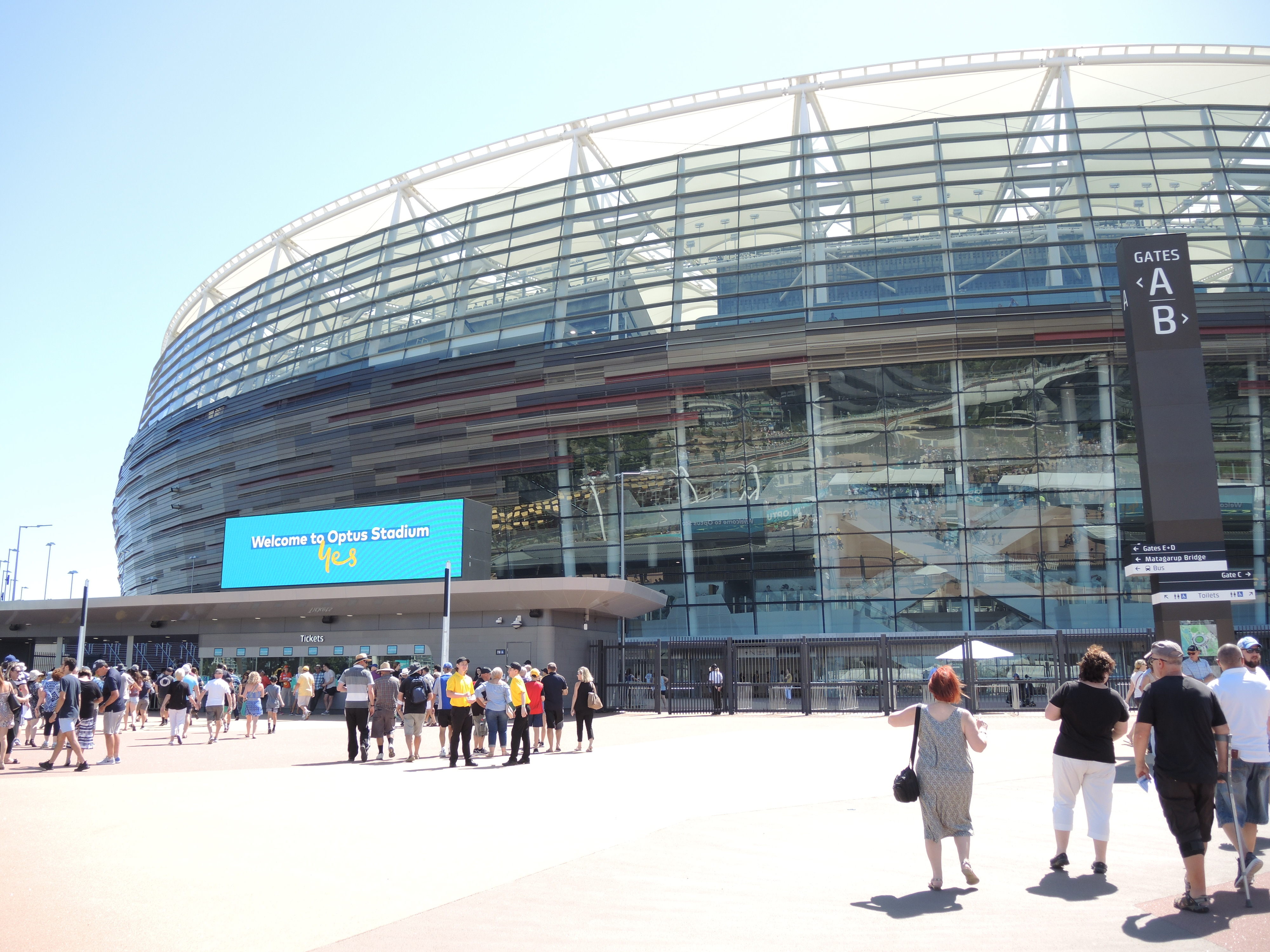 Perth Stadium open day. Approaching Gates A and B.